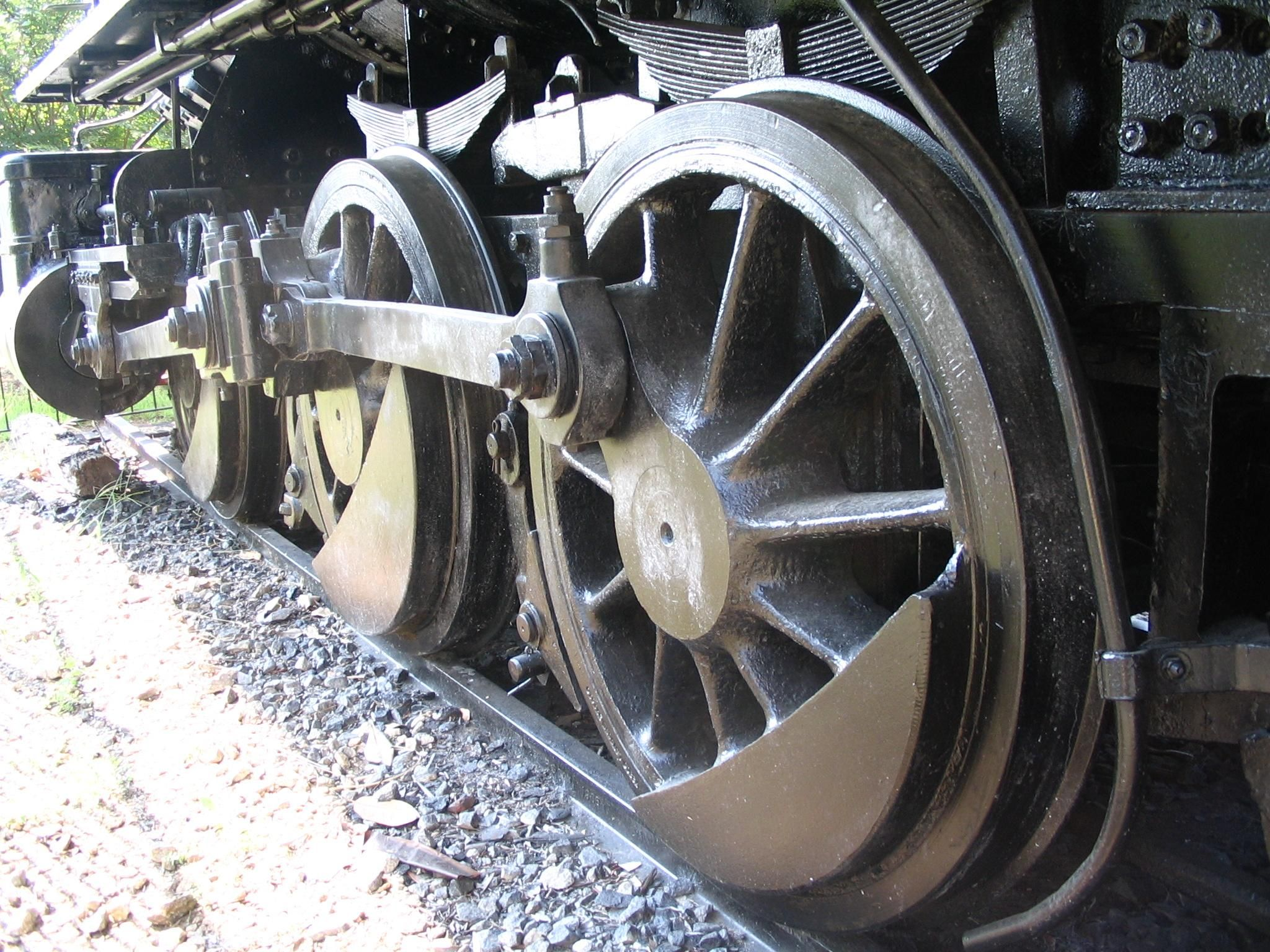 Image title: Dinky the steam engine main drive wheel Image from Public domain images website